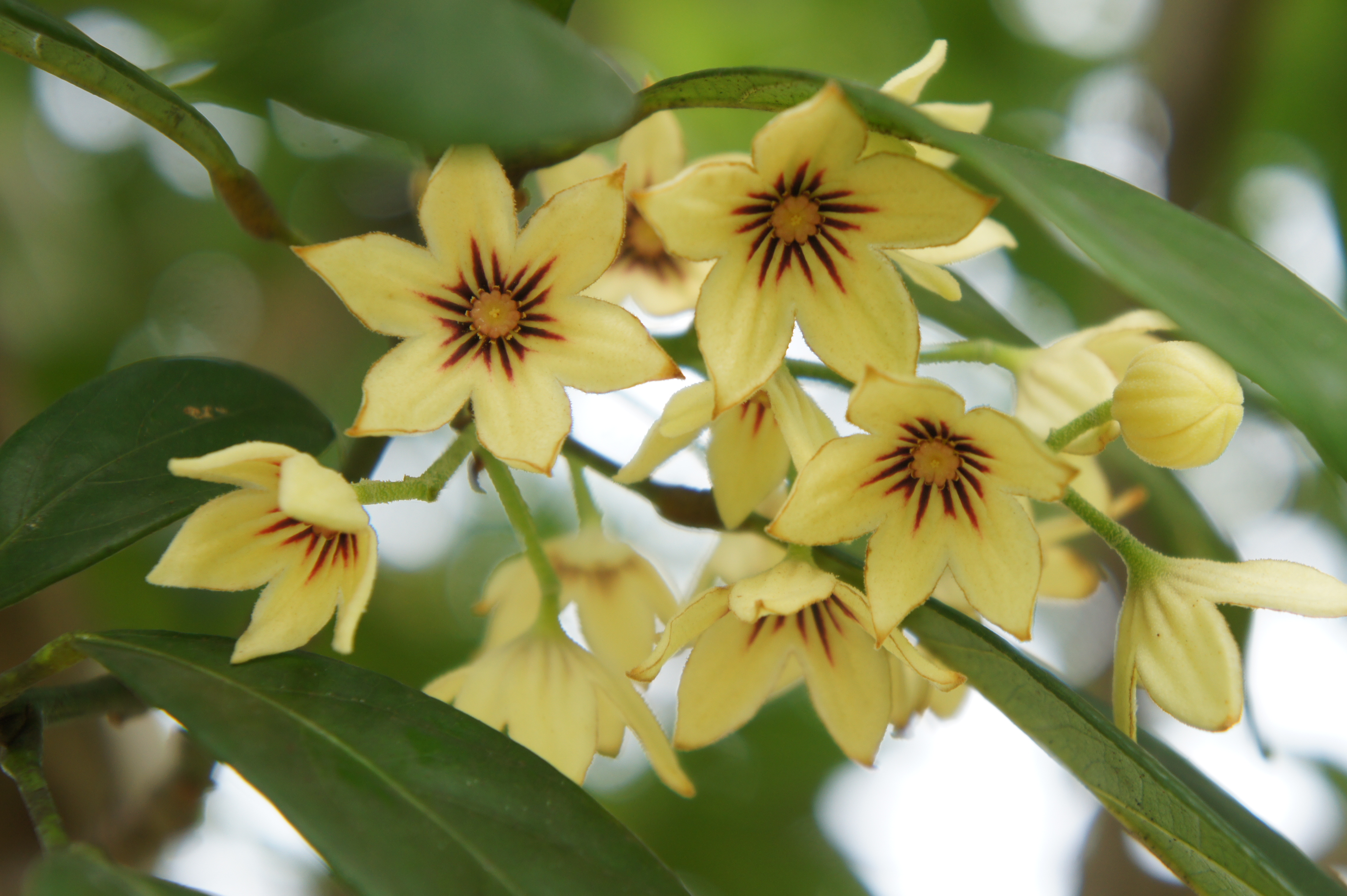 Flowers of Cola nitida. Location: Serdang, Selangor, Malaysia